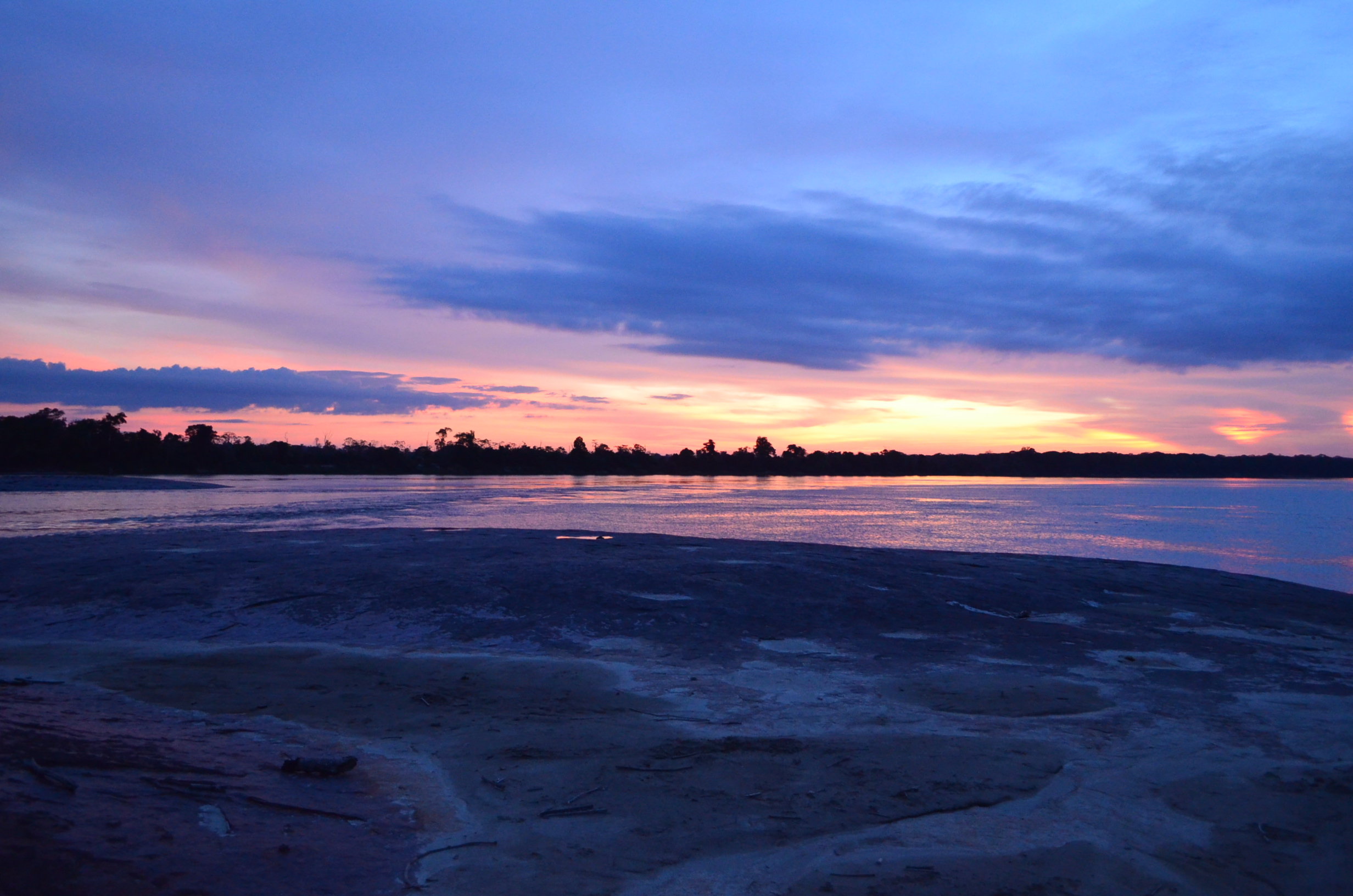 Unnamed Road, Cumaribo, Vichada, Colombia